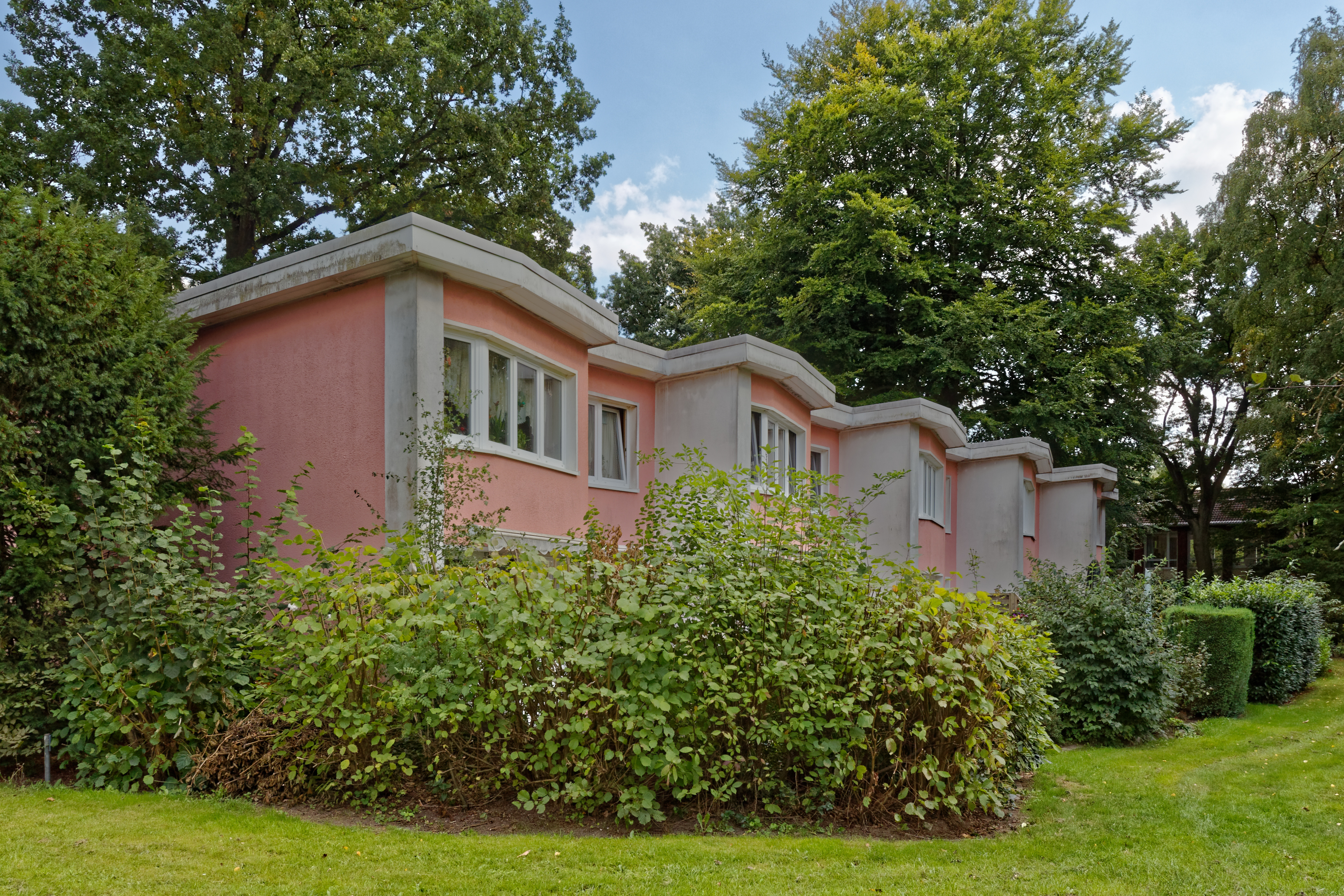 Hamburg-Bramfeld, garden city Hohnerkamp, buildings in the Trakehner KehreThis is a photograph of an architectural monument.